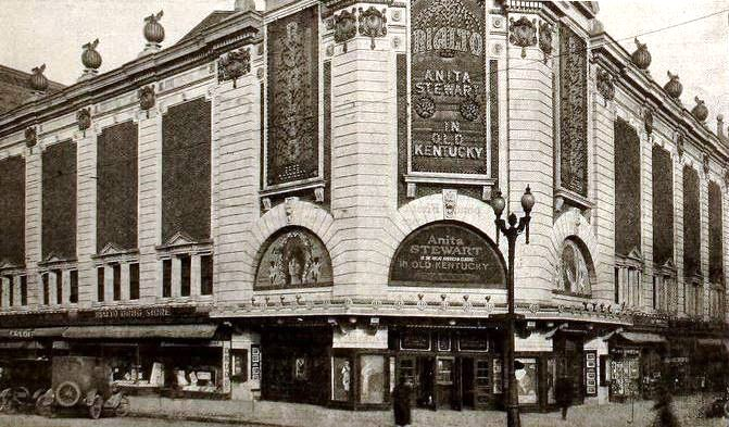 Rialto Theater in Omaha, Nebraska, showing the film In Old Kentucky (1919), on page 3068 of the April 4, 1920 Motion Picture News.